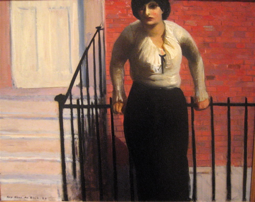 Guy Pène du Bois (United States, New York, Brooklyn, 1884 - 1958) An American Oriental, 1921 Painting, Oil on canvas, 20 1/16 x 25 1/8 in. (50.80 x 63.90 cm) Mr. and Mrs. William Preston Harrison Collection (39.9.7) Wikipedia Loves Art at the Los Angeles County Museum of Art This photo of item # 39.9.7 at the Los Angeles County Museum of Art was contributed under the team name "artifacts" as part of the Wikipedia Loves Art project in February 2009. Los Angeles County Museum of Art The original photograph on Flickr was taken by Beesnest McClain—please add a comment to the original Flickr page whenever a use has been made on Wikipedia or another project. Project galleries on Flickr: this institution, this team Guy Pène du Bois (United States, New York, Brooklyn, 1884 - 1958) An American Oriental, 1921 Painting, Oil on canvas, 20 1/16 x 25 1/8 in. (50.80 x 63.90 cm) Mr. and Mrs. William Preston Harrison Collection (39.9.7) Wikipedia Loves Art at the Los Angeles County Museum of Art This photo of item # 39.9.7 at the Los Angeles County Museum of Art was contributed under the team name "artifacts" as part of the Wikipedia Loves Art project in February 2009. Los Angeles County Museum of Art The original photograph on Flickr was taken by Beesnest McClain—please add a comment to the original Flickr page whenever a use has been made on Wikipedia or another project. Project galleries on Flickr: this institution, this team